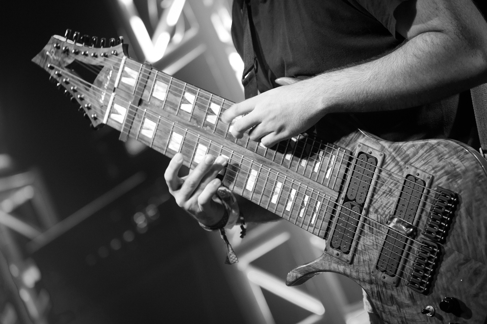 Felix Martin performing at the Euroblast Festival in Cologne, October 2014